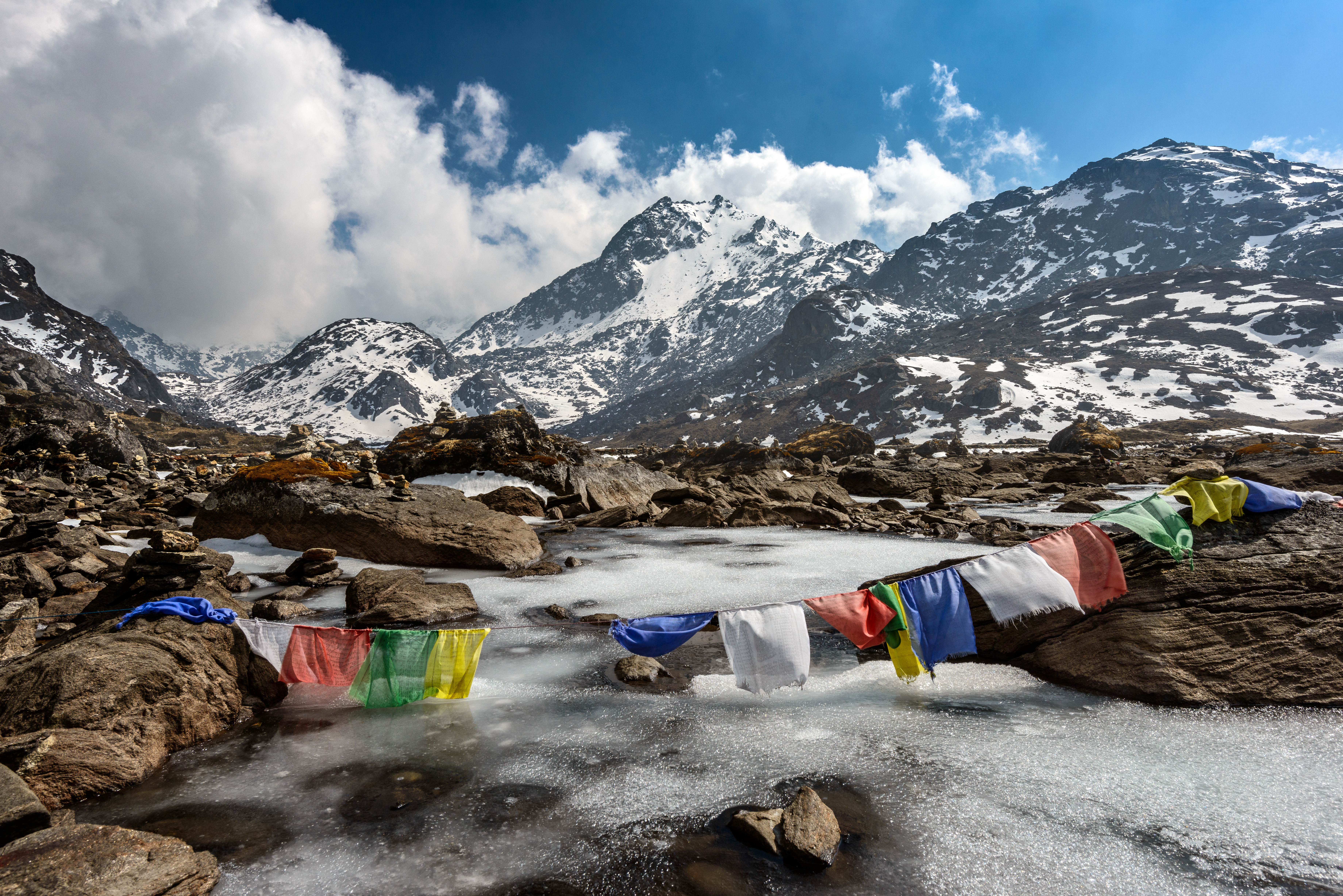 Nepal, Himalayas. National park Langtang, lake Gosaikunda.